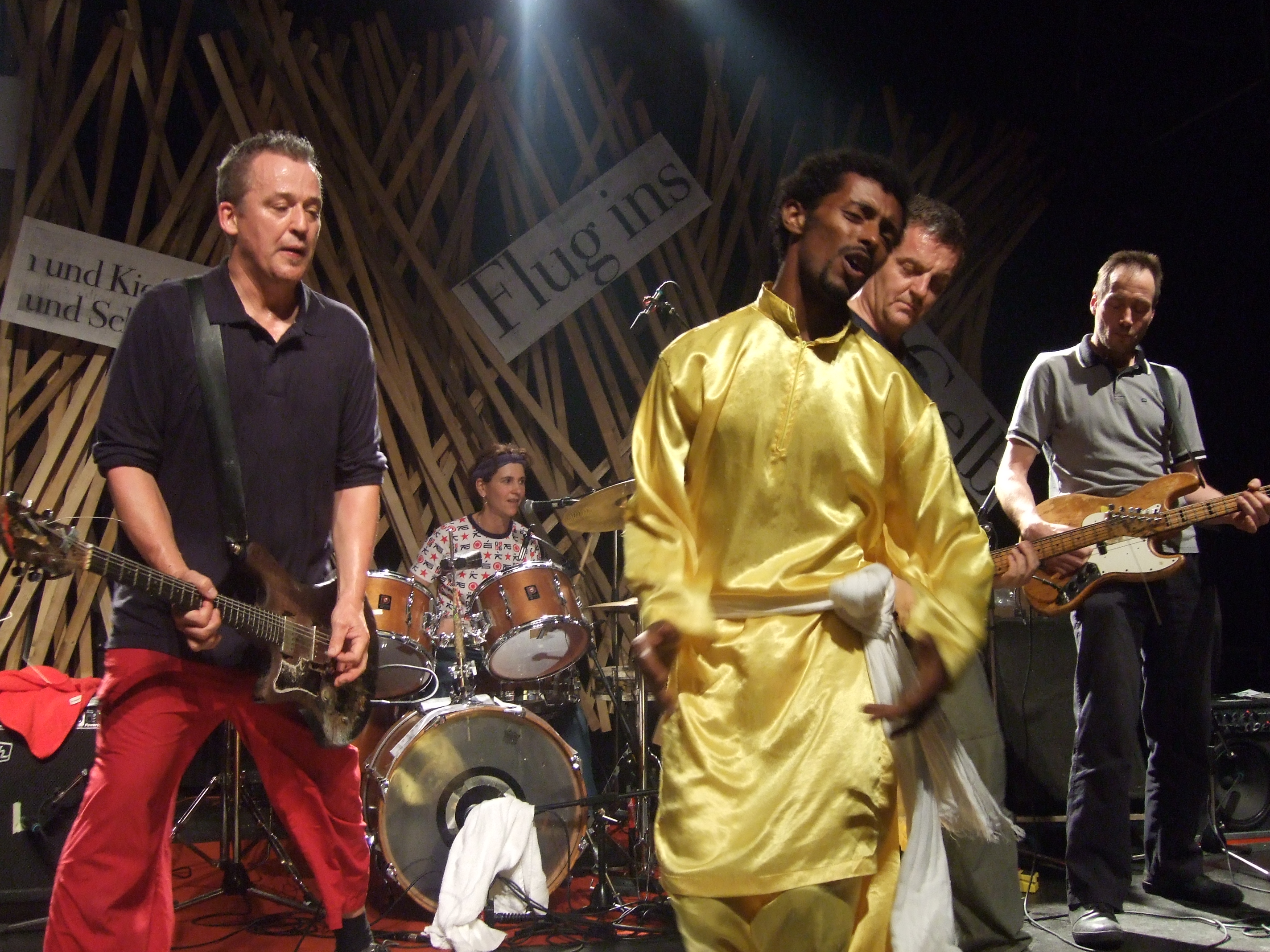 Band The Ex and ethiopian dancer Melaku Belay